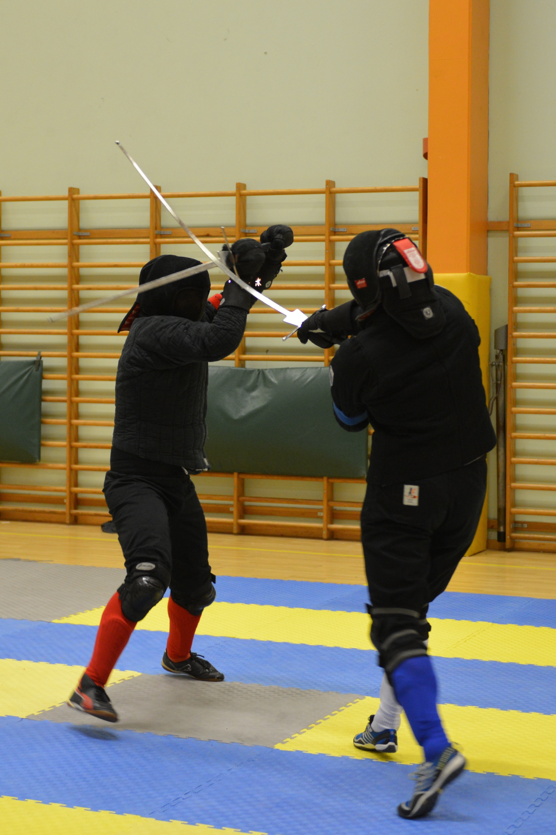 Image from Örebro Open 2014 hema tournament in Kristinehamn, Sweden.